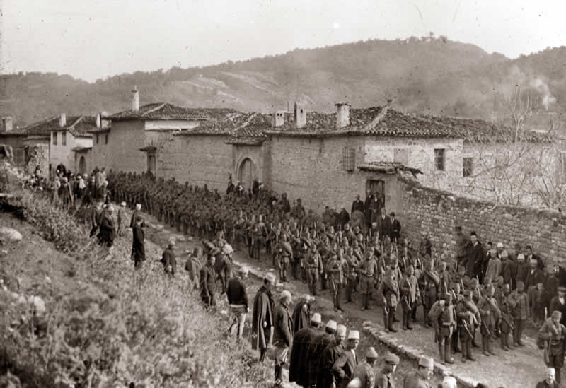 Albanian_forces_in_south_1913